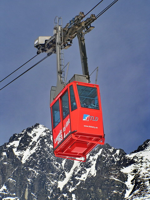 Cableway Skalnaté pleso - Lomnický štít